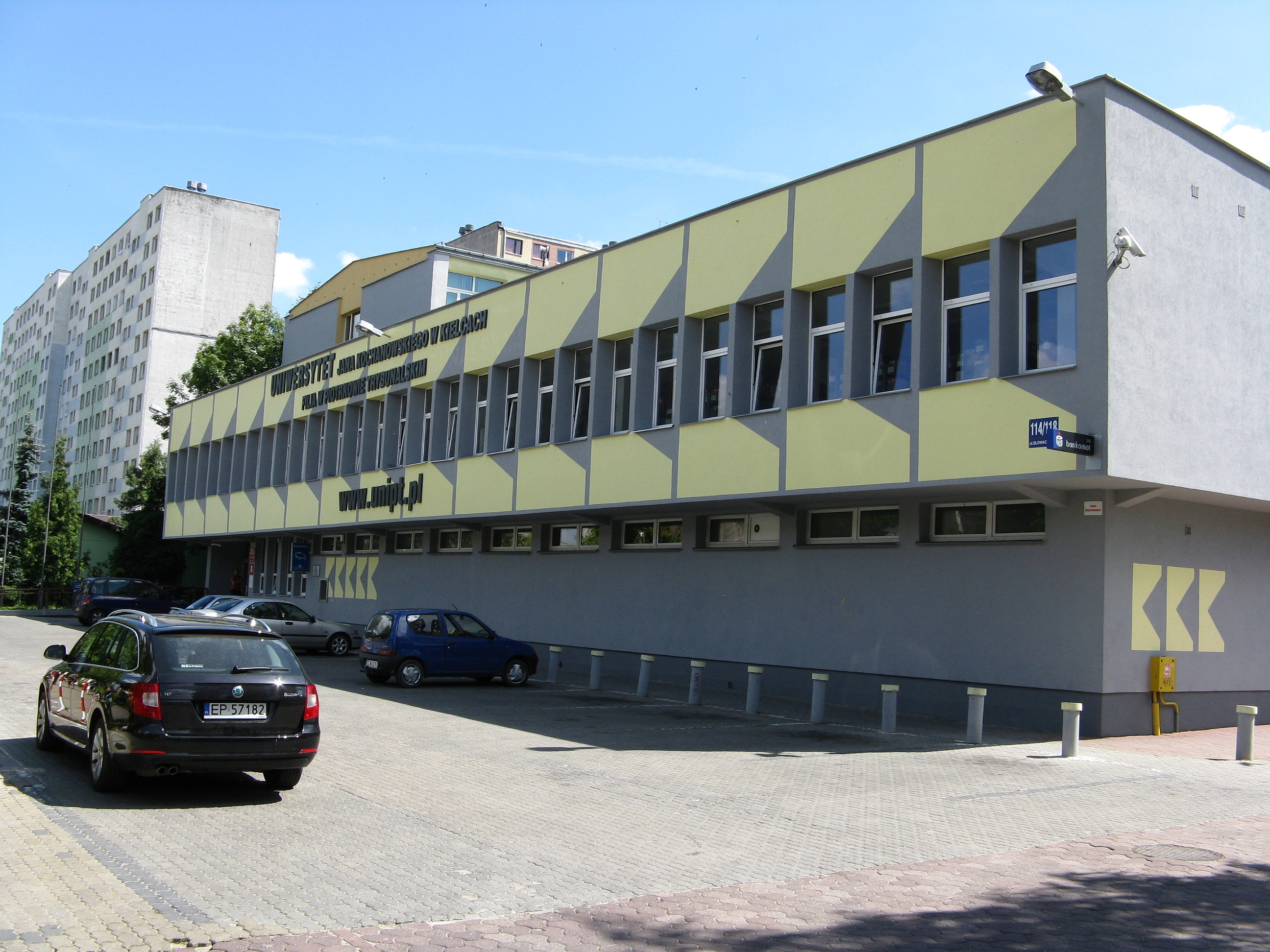 Jan Kochanowski University in Piotrków Trybunalski